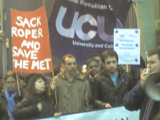 Protestors demonstrating against job cuts at London Metropolitan University, January 2009